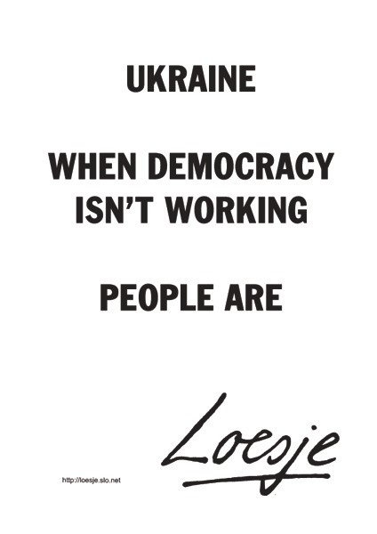 Loesje Used with permission. ([1])